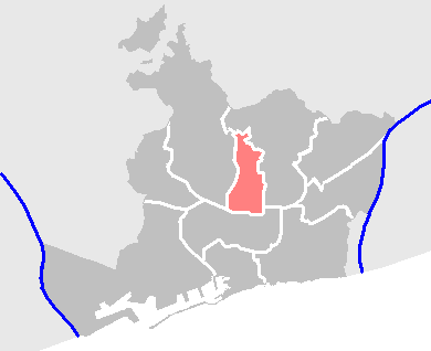 Locator maps of districts/ neighbourhoods in Barcelona: Map - Barcelona - Gracia.PNG